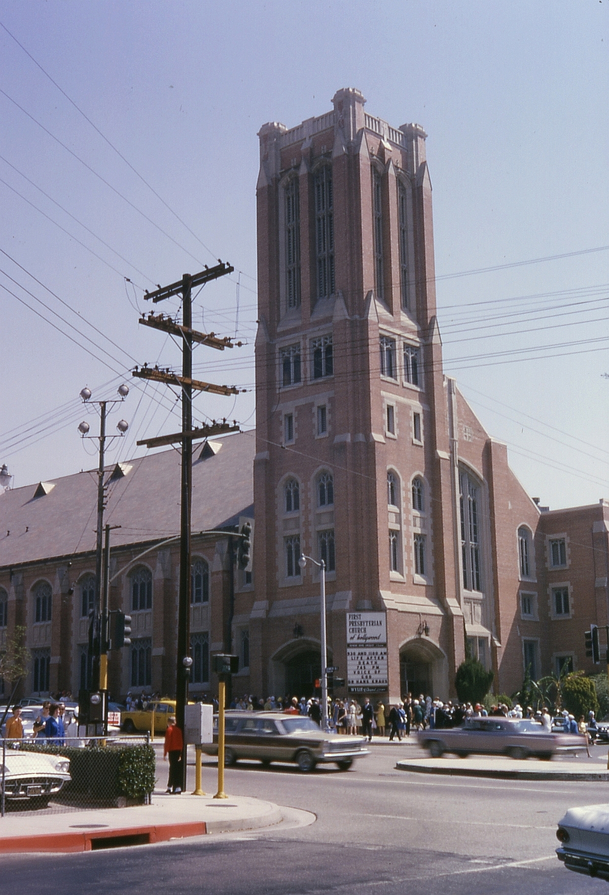 The front of the First Presbyterian Church, Hollywood, California. Taken with a 35mm Exakta VX, using Ektachrome slide film.